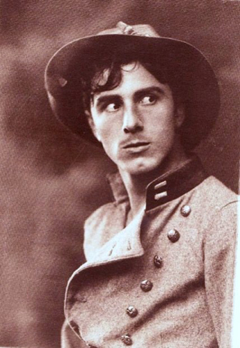 Studio portrait of George Beranger as young Duke Cameron, in the uniform of a Confederate soldier during filming of the 1915 film The Birth of a Nation